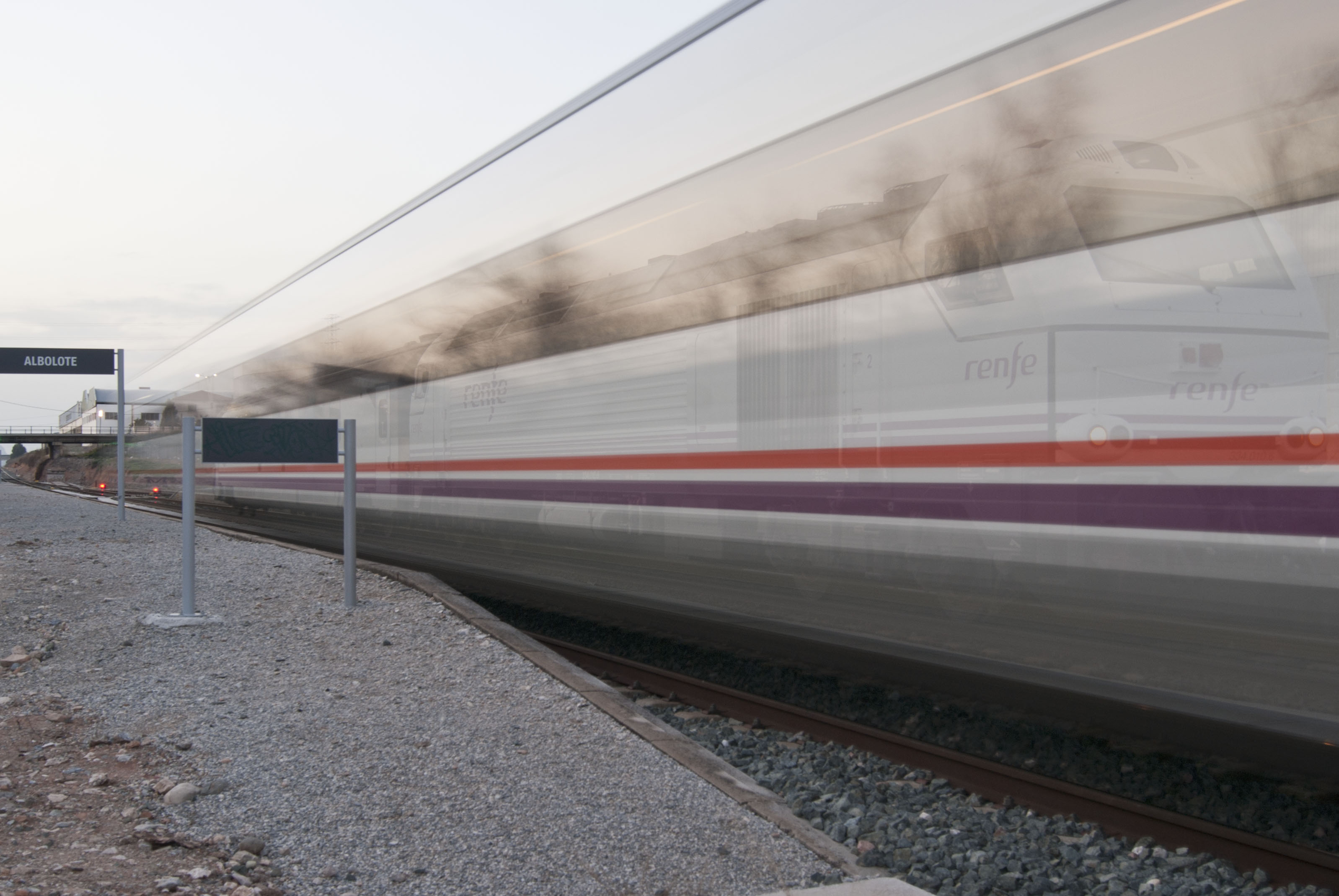 A Renfe S599 train crosses a stoped Arco train in the Albolote station (Spain).